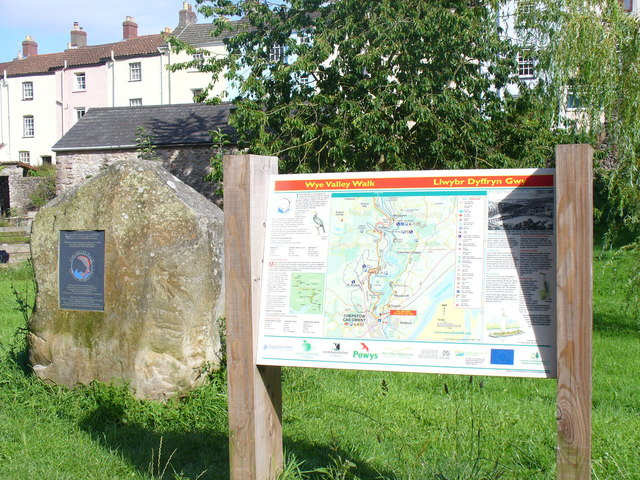 Wye Valley Walk Map and stone from Plynlimon marking the Wye Valley Walk as it passes Chepstow Castle.